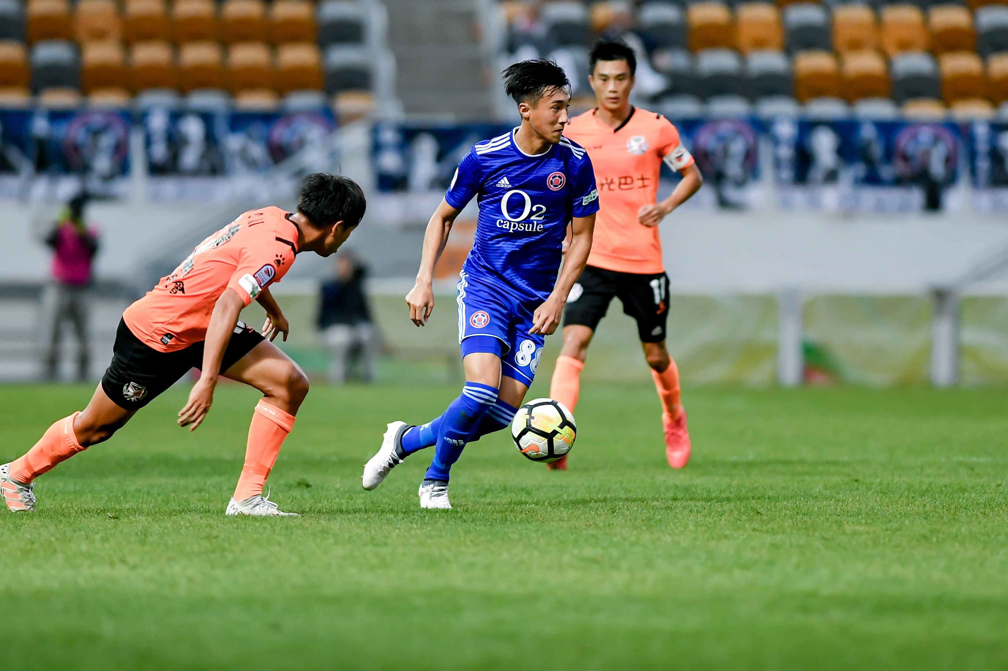 Kitamura playing for Eastern Sports Club, 2018